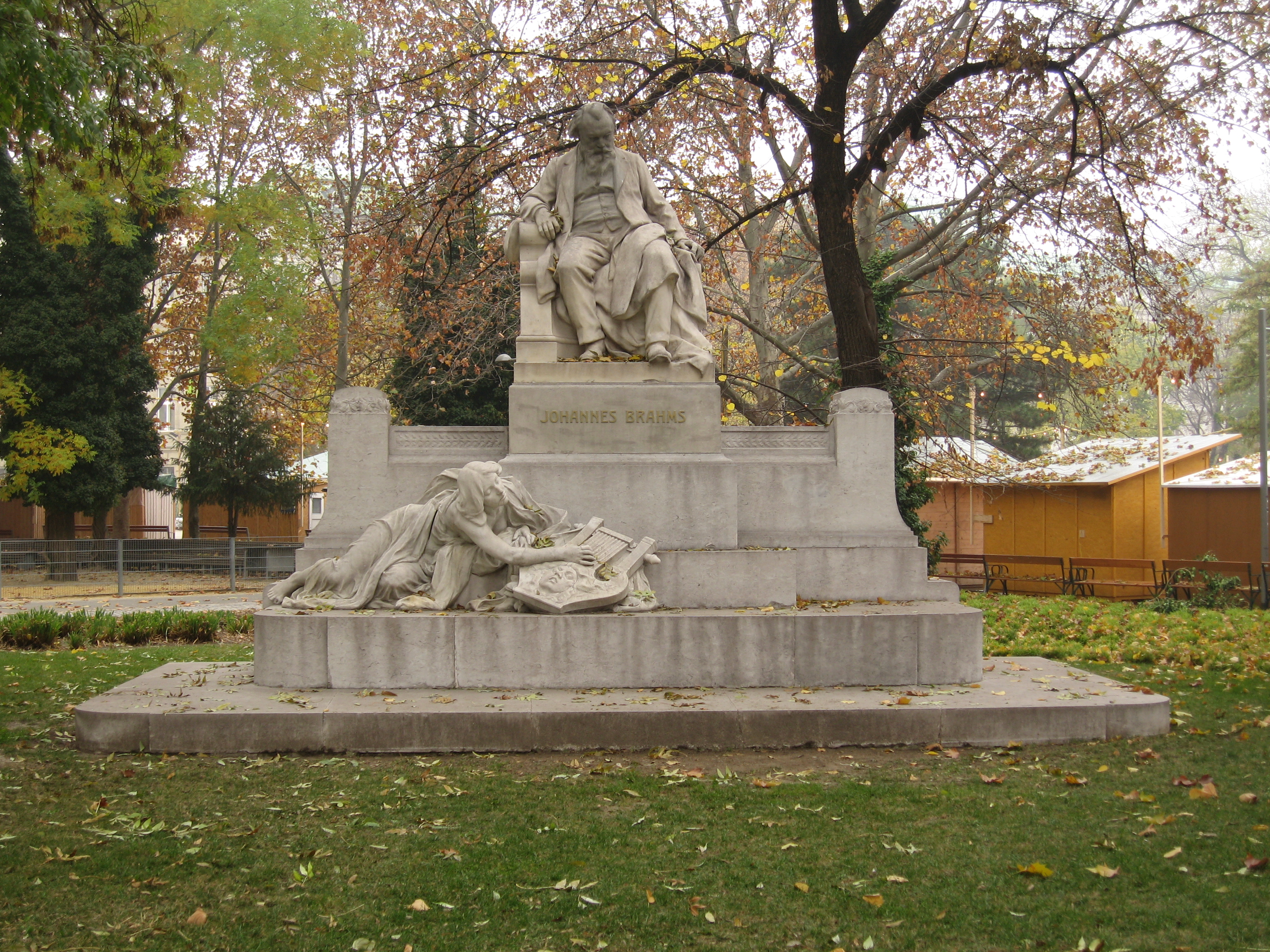 Johannes Brahms statue, Karlsplatz, Vienna